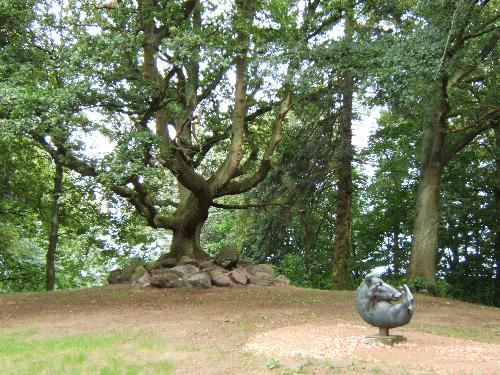 Picture of Hohen Niendorf, place in Mecklenburg-Vorpommern, Germany